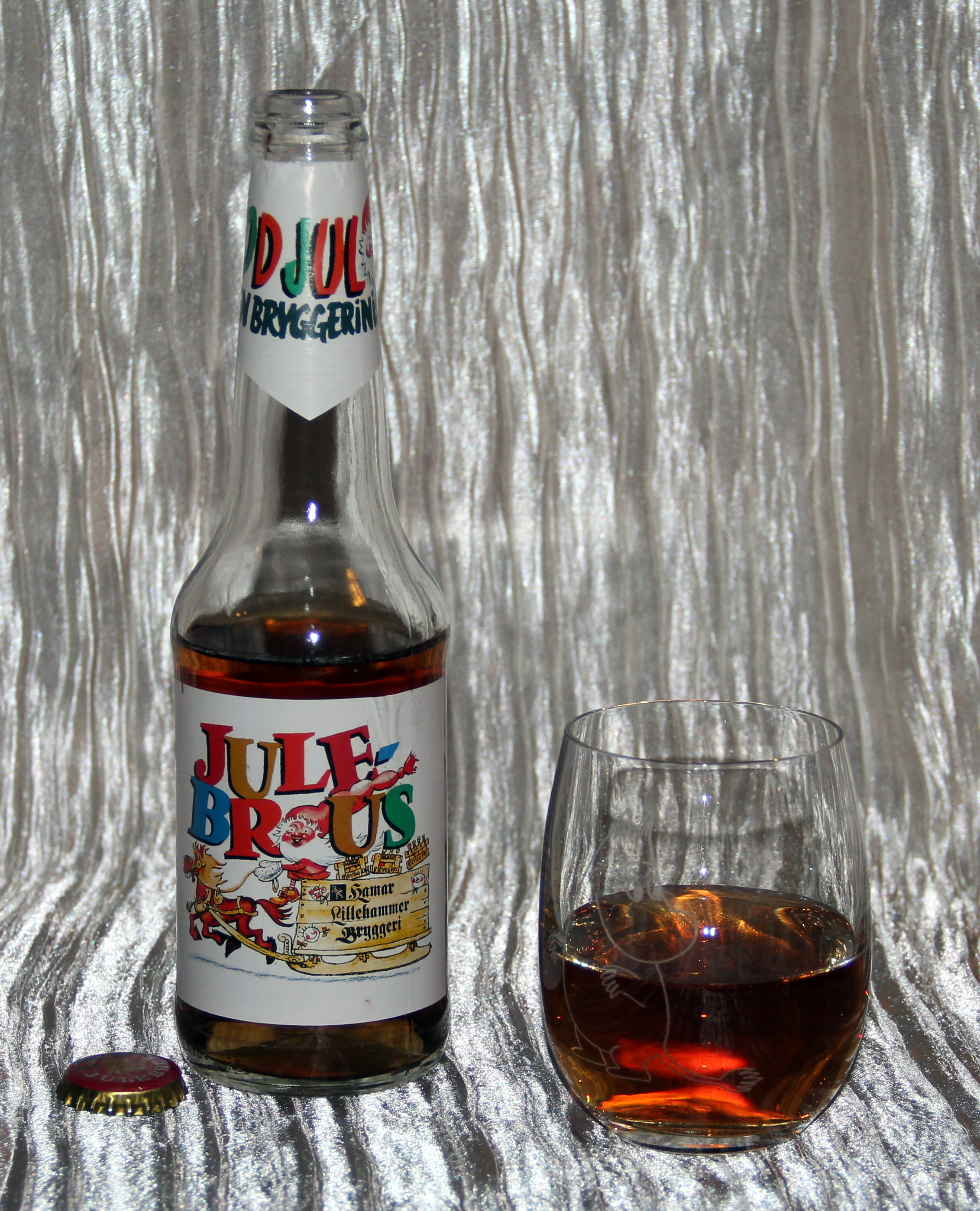 Hamar og Lillehammer Julebrus, brown Christmas seasonal soda from Ringnes, Norway